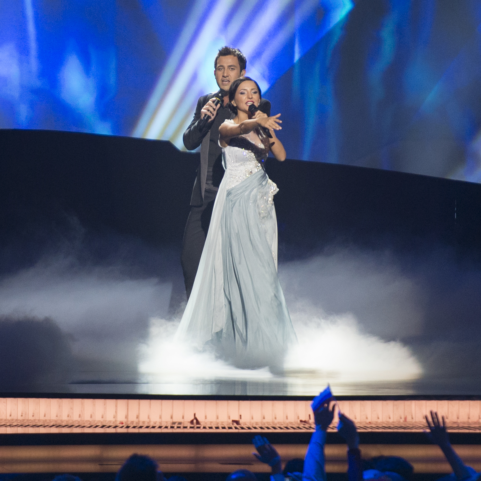 Nodi Tatishvili and Sophie Gelovani representing Georgia with the song "Waterfall" during the second dress rehearsal of the second semi final of the Eurovision Song Contest 2013 in Malmö. (Help translate this text)